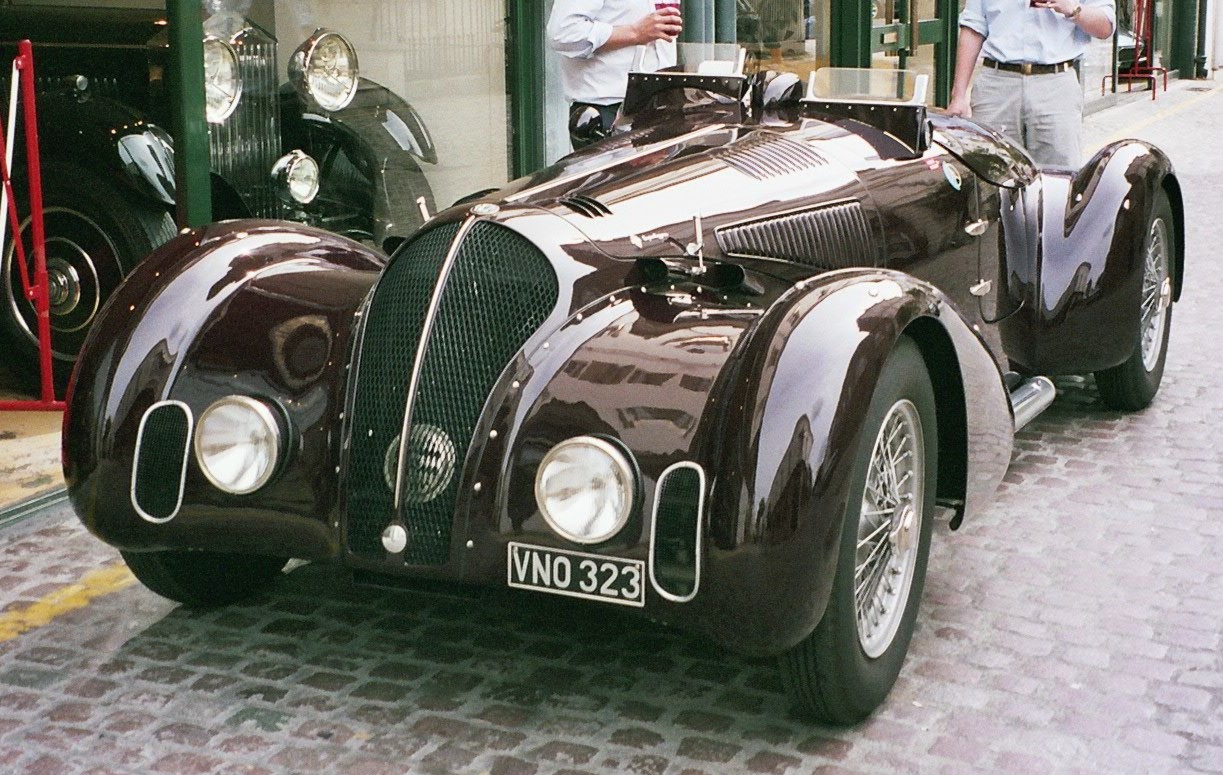 Vintage car sold at Coys of Kensington, London